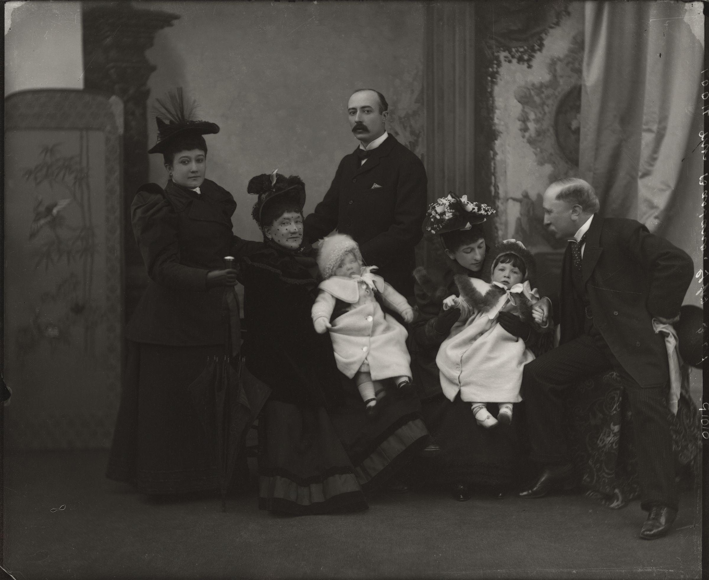 The Bassano family, by Alexander Bassano (died 1913). All images in this batch have been confirmed as author died before 1939 according to the official death date listed by the NPG.